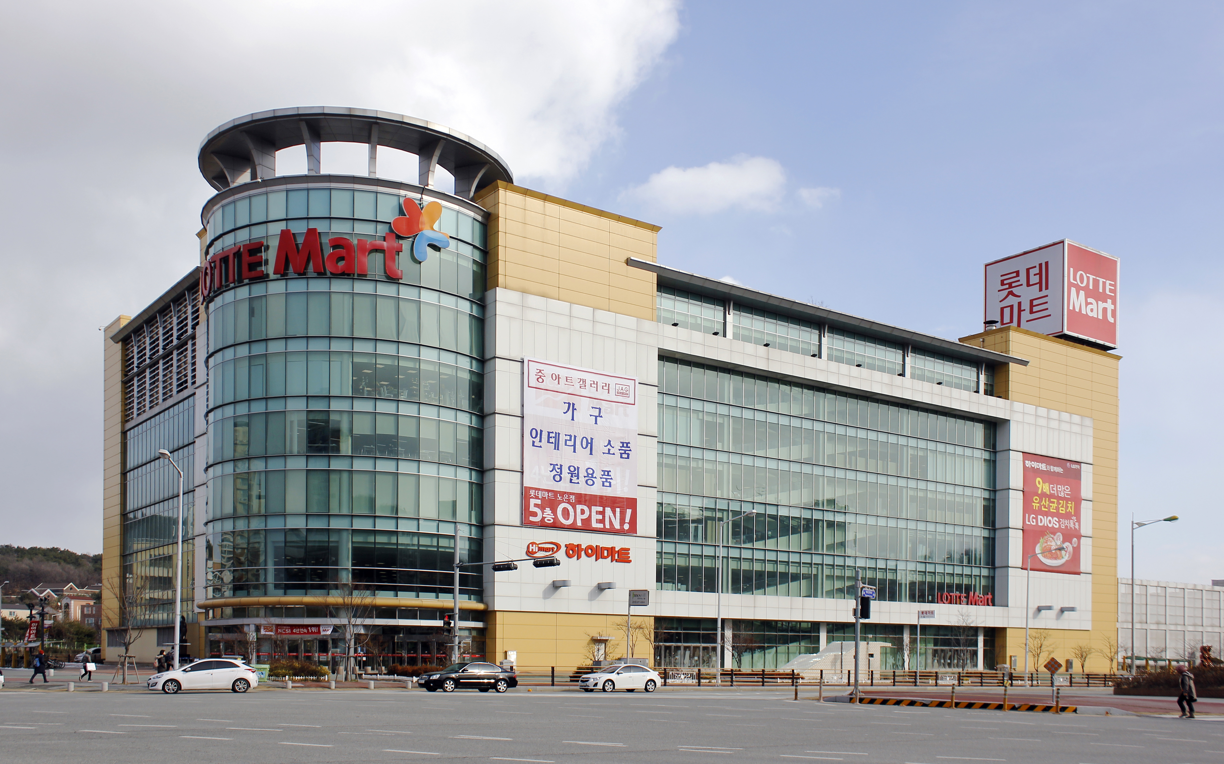 Lottemart Noeun